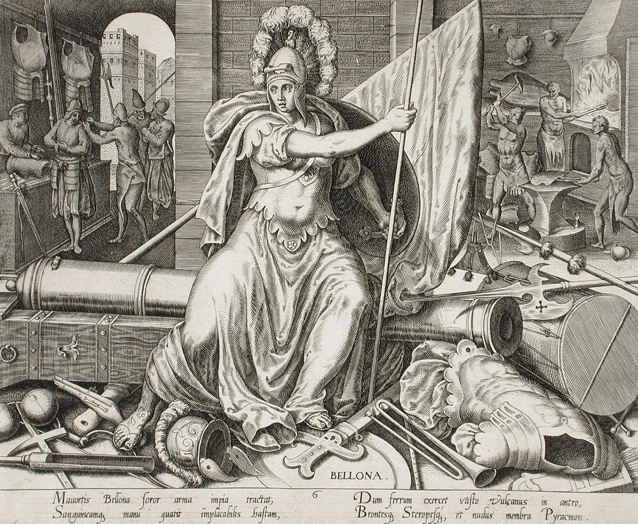 Holland, 1574 Series: Personifications of Industrial and Professional Life, pl. 6 Prints; engravings Engraving Gift of David and Frances Elterman through the Graphic Arts Council (M.79.120.2) Prints and Drawings